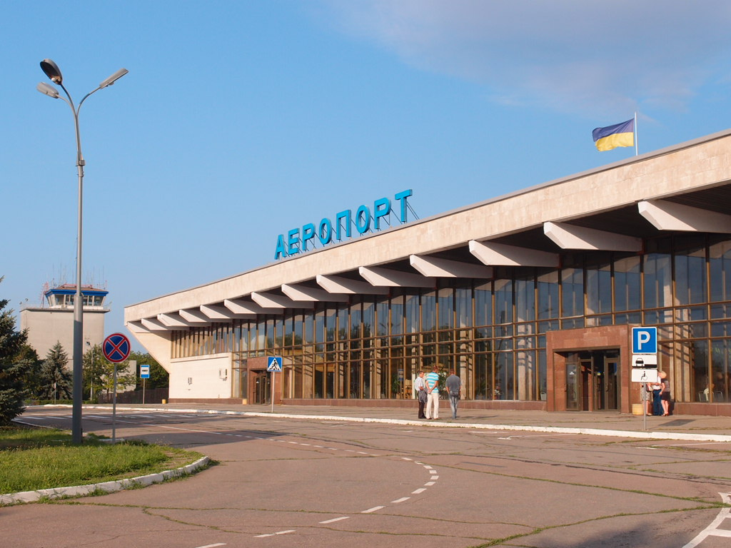 Passenger terminal of Kherson International Airport.